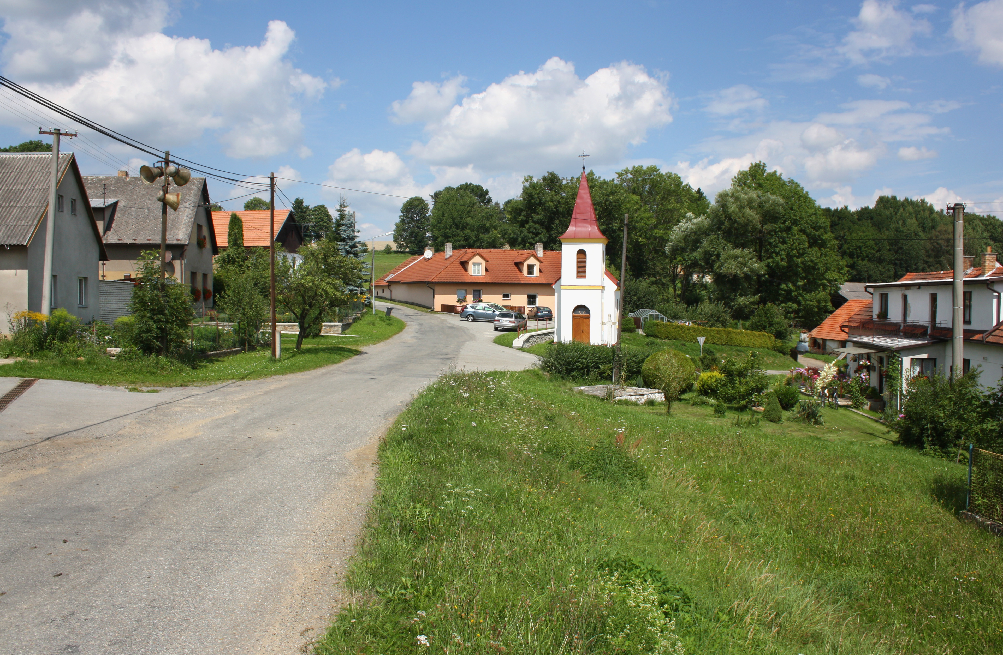 East part of Žirov village, Czech Republic